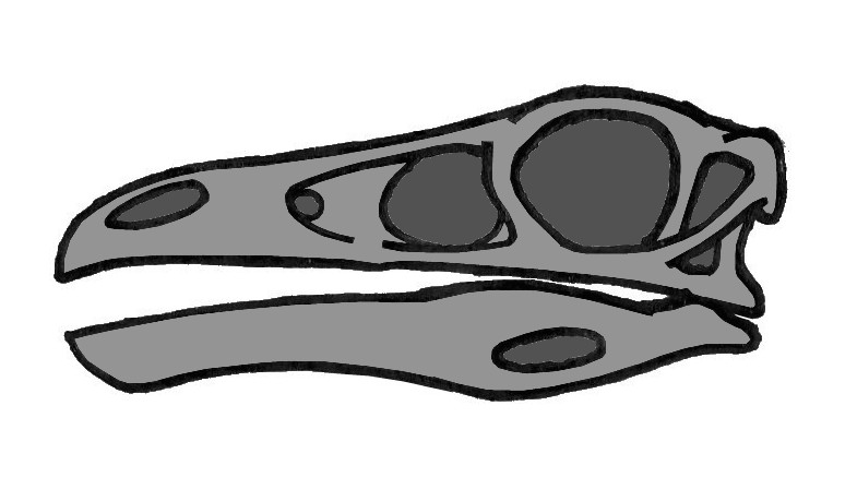 Illustration of the skull from the ostrichlike dinosaur Struthiomimus.